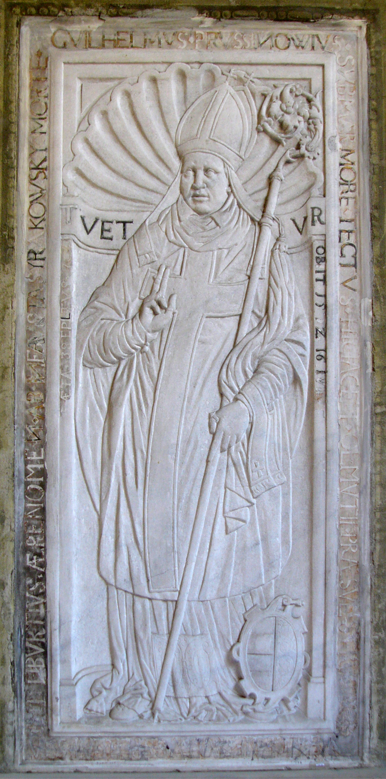 Tombstone of bishop Vilém Prusinovský z Víckova in The Church of the Virgin Mary of the Snow in Olomouc (Czech Republic).